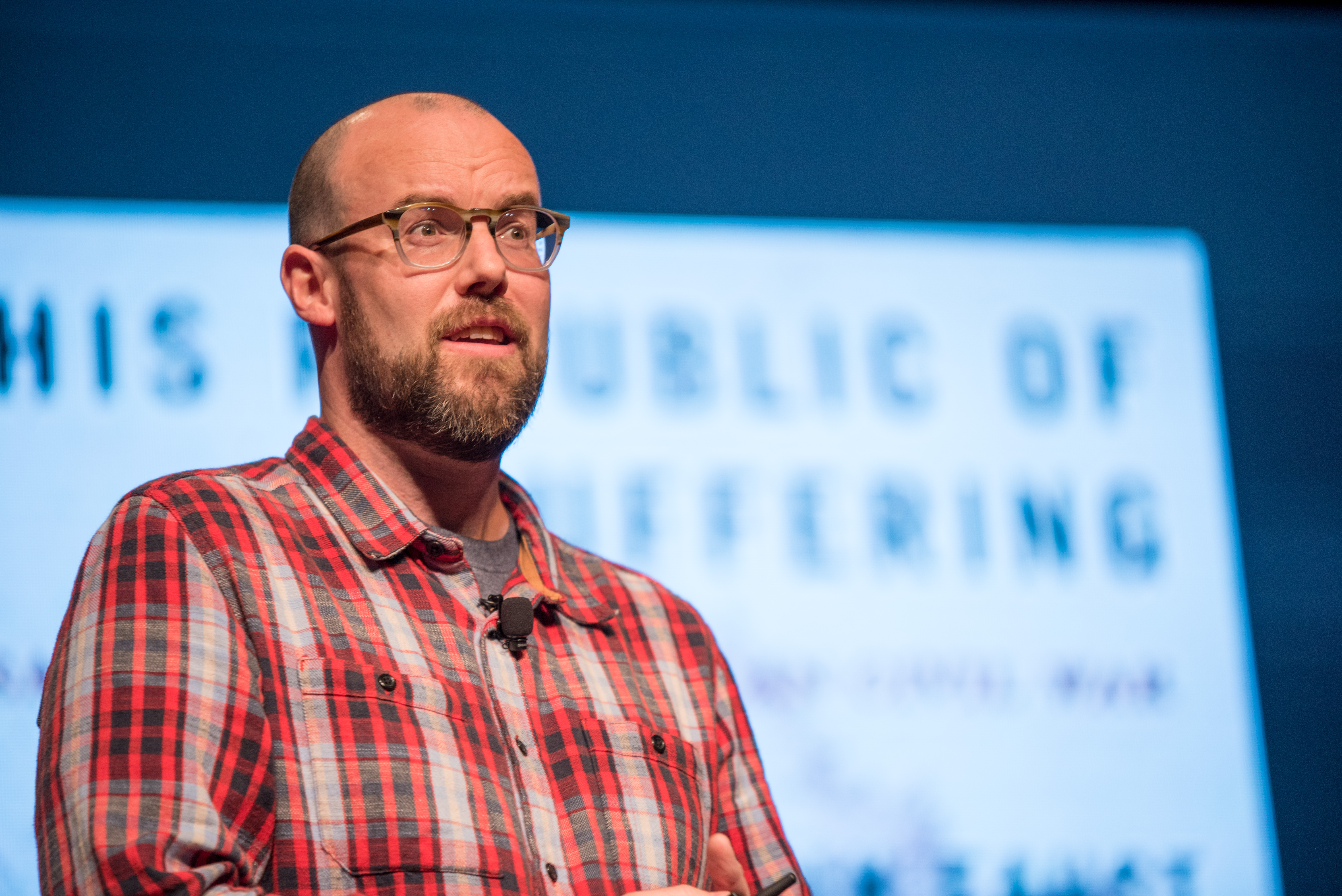 Michael Norton at Poptech in 2017